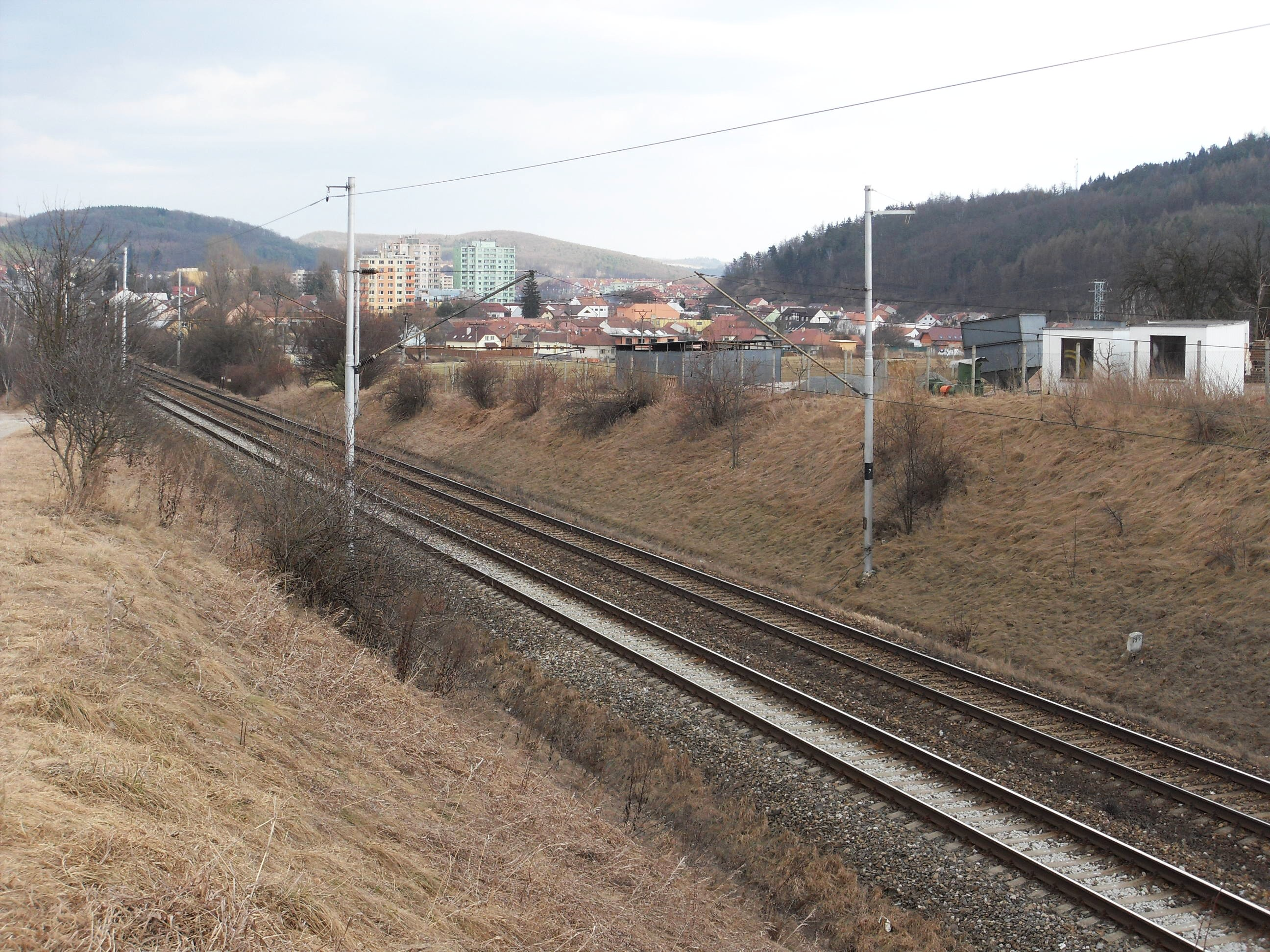 Railway line Brno - Havlíčkův Brod, Kuřim, Brno-Country district, Czech Republic